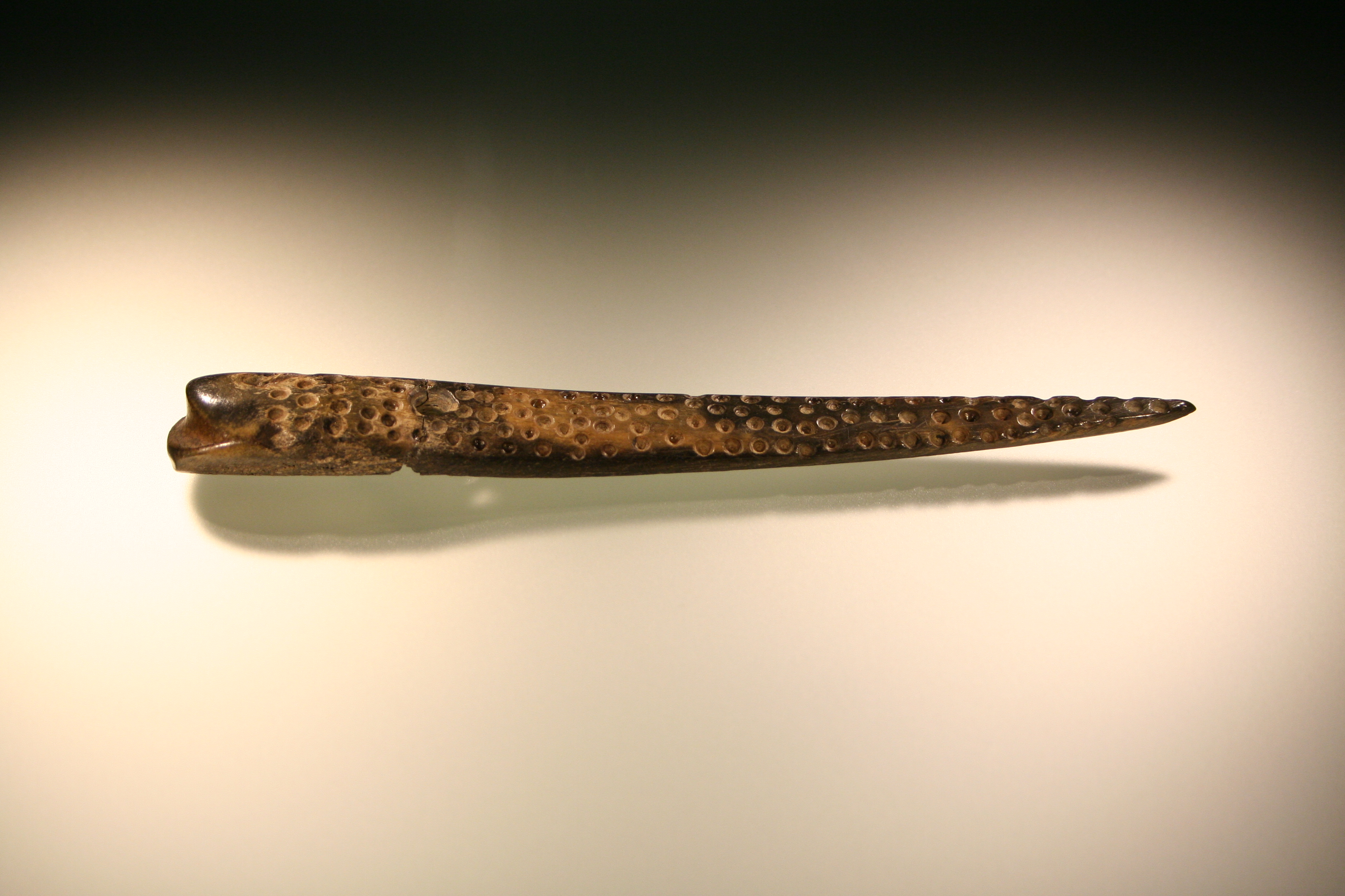 Decorated bone tip, found inside a Linear Pottery culture well at Scheuditz-Altscherbitz